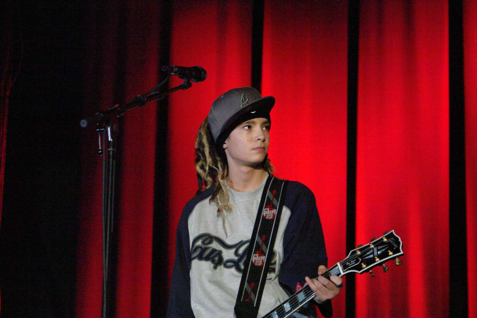 Tom Kaulitz of Tokio Hotel performing in Sursee, Switzerland. 2006